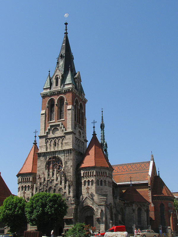 St. Stanislav Church in Chortkiv, Ternopil region, Ukraine